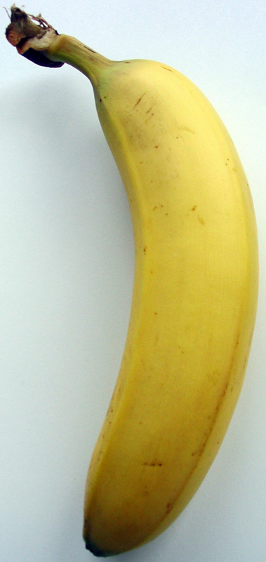 Banana - Kind Cavendish.